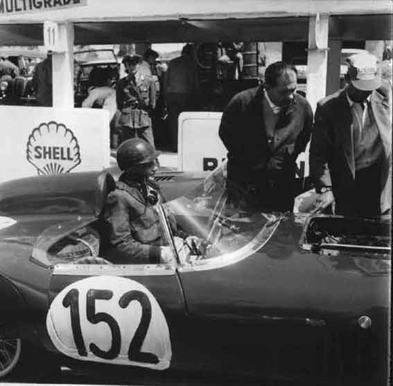 Entry #152 in Targa Florio on 8 May 1960 was Anna Maria Peduzzi (and co-driver Francisco Siracusa) in an Osca F2/S 1500. They ended in 17th place which was good. [1]